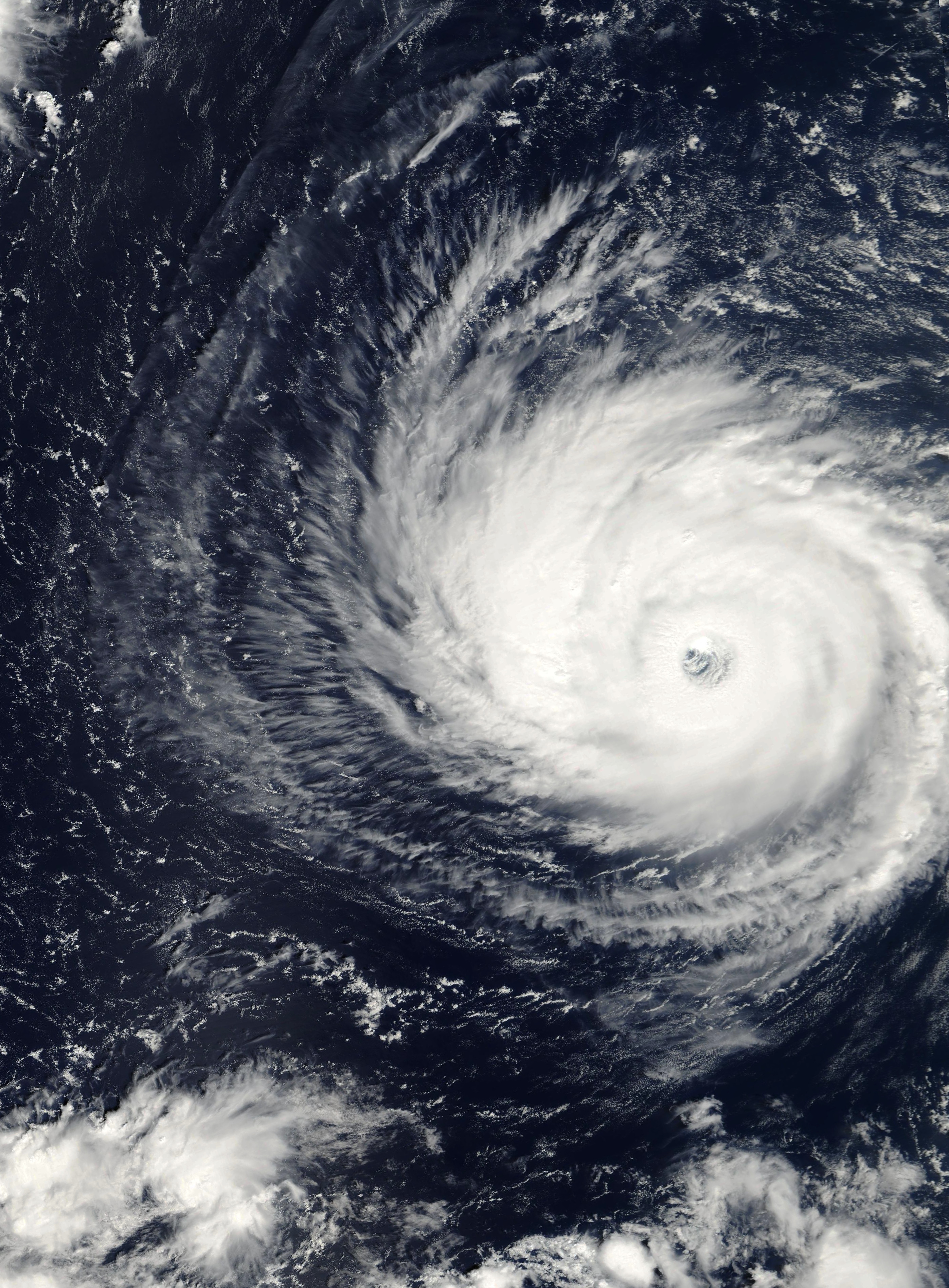 Hurricane Isaac on September 28, 2000